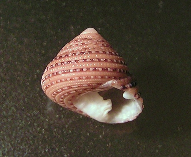 Clanculus flosculus P. Fischer, 1880 , a top snail from the family Trochidae; Seychelles